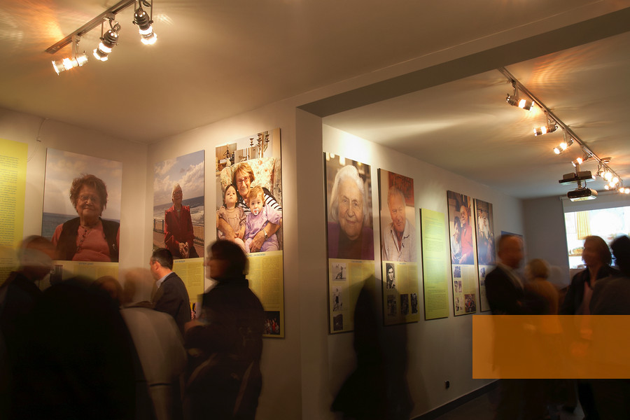 New life exhibition - Auschwitz Jewish Center | Centrum Żydowskie w Oświęcimiu